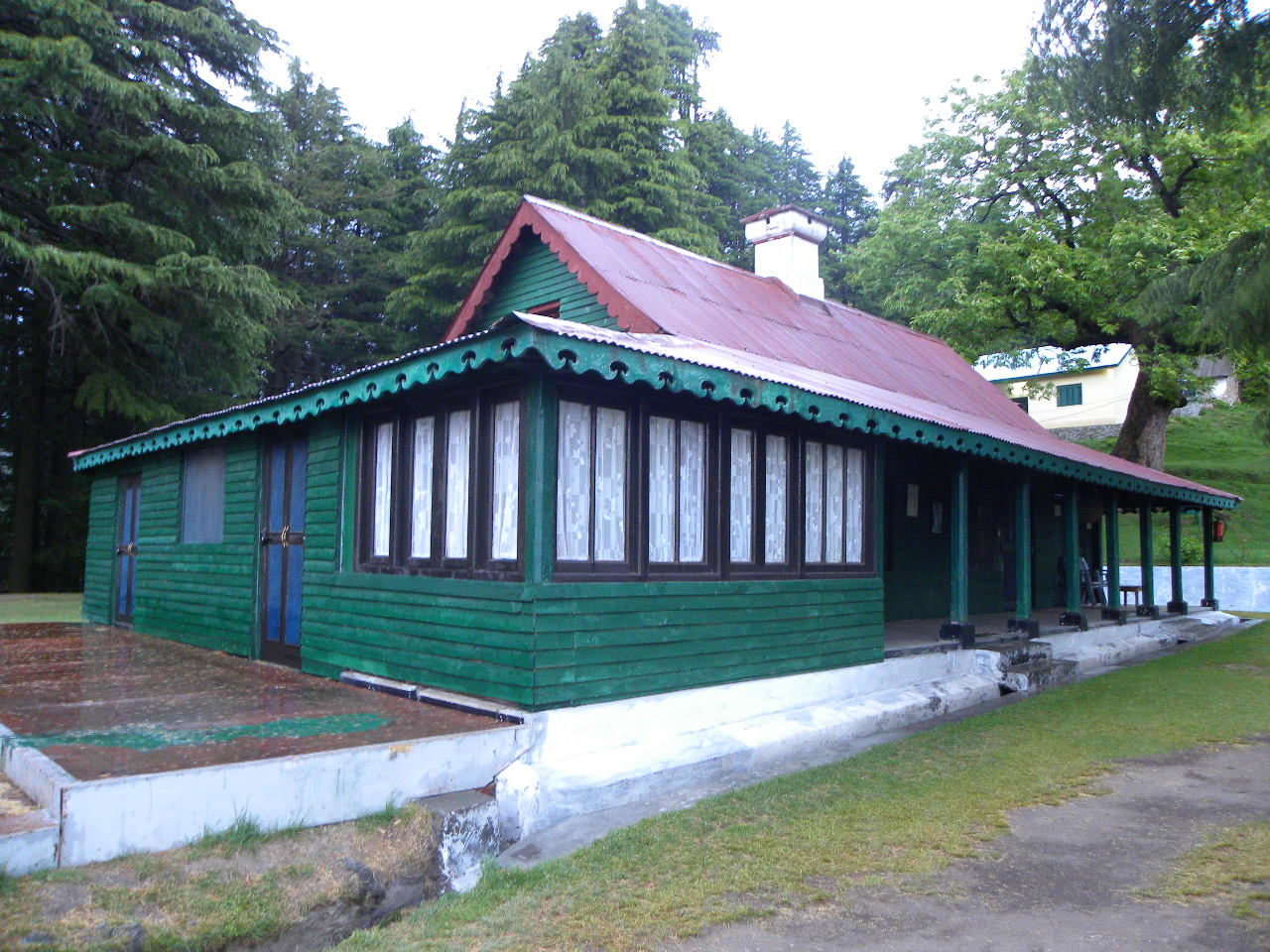 One of the best forest rest house in chamba district, Himachal Pradesh.